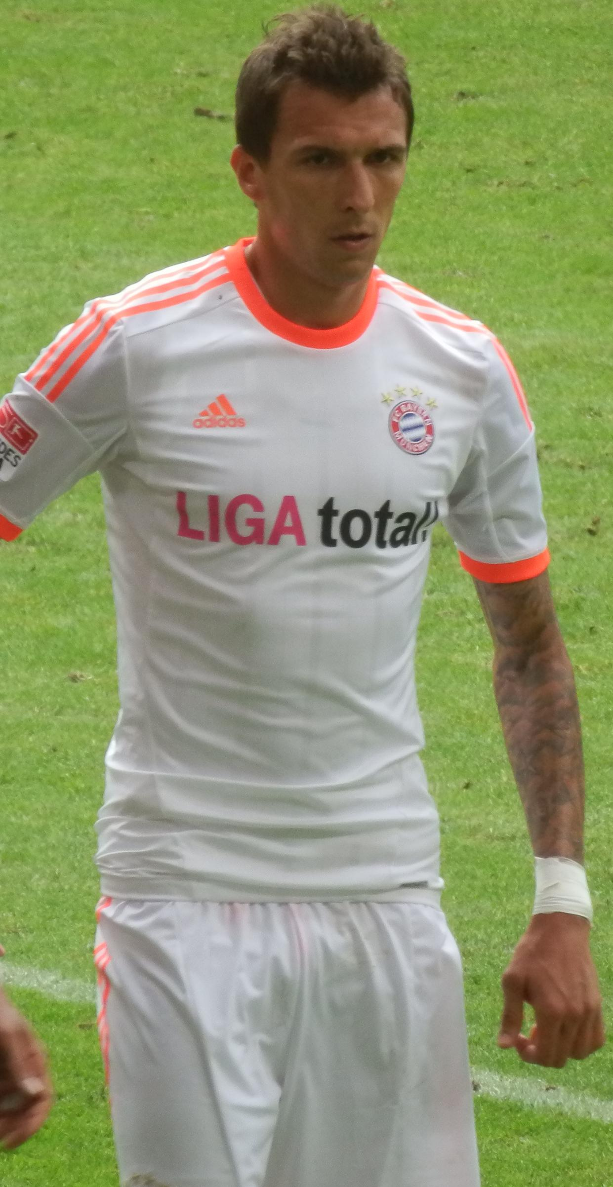 Mario Mandžukić (Liga total & champions league & DFB pokal)